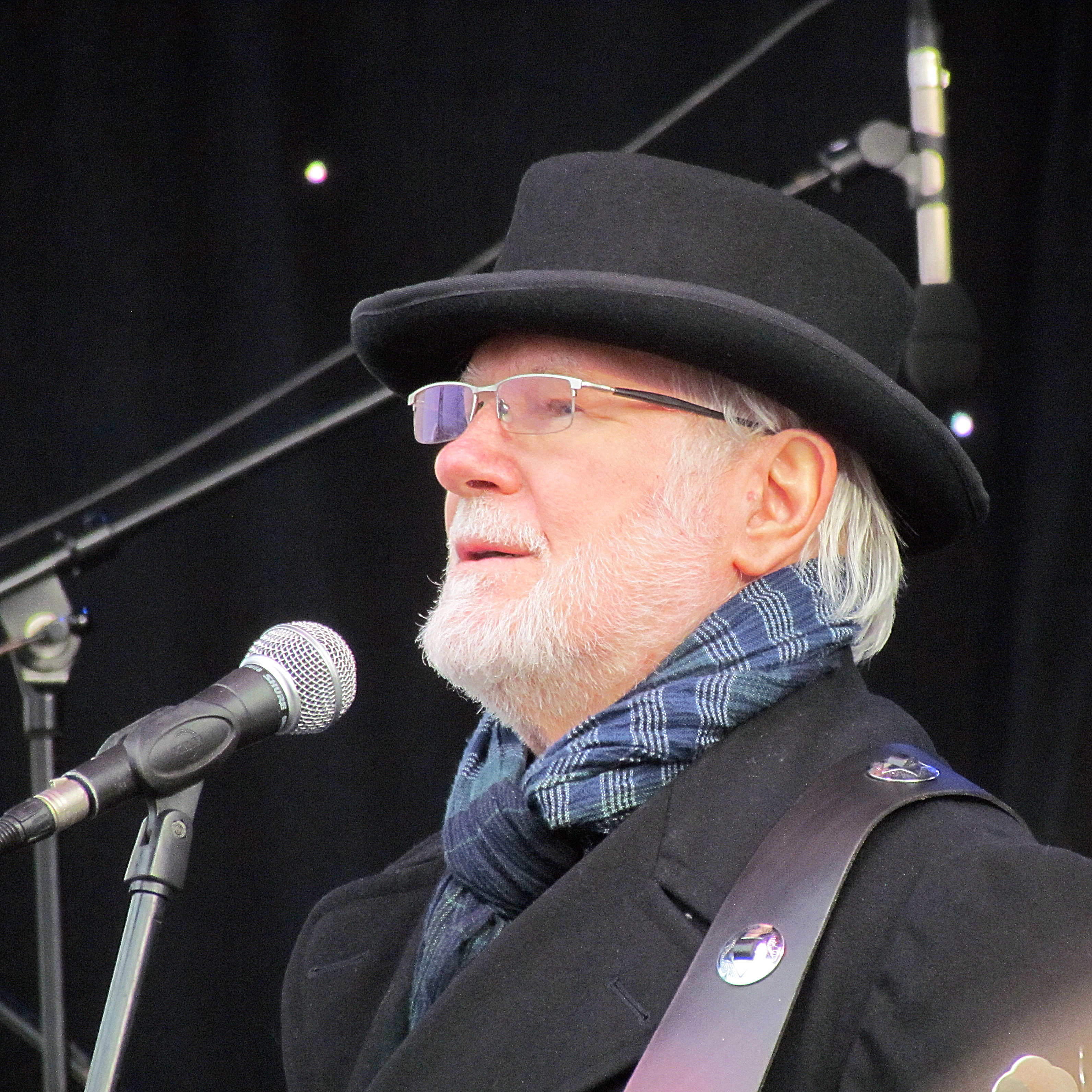 Zika Jelic member of YU grupa